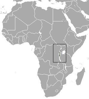 Volcano Shrew (Sylvisorex vulcanorum) range